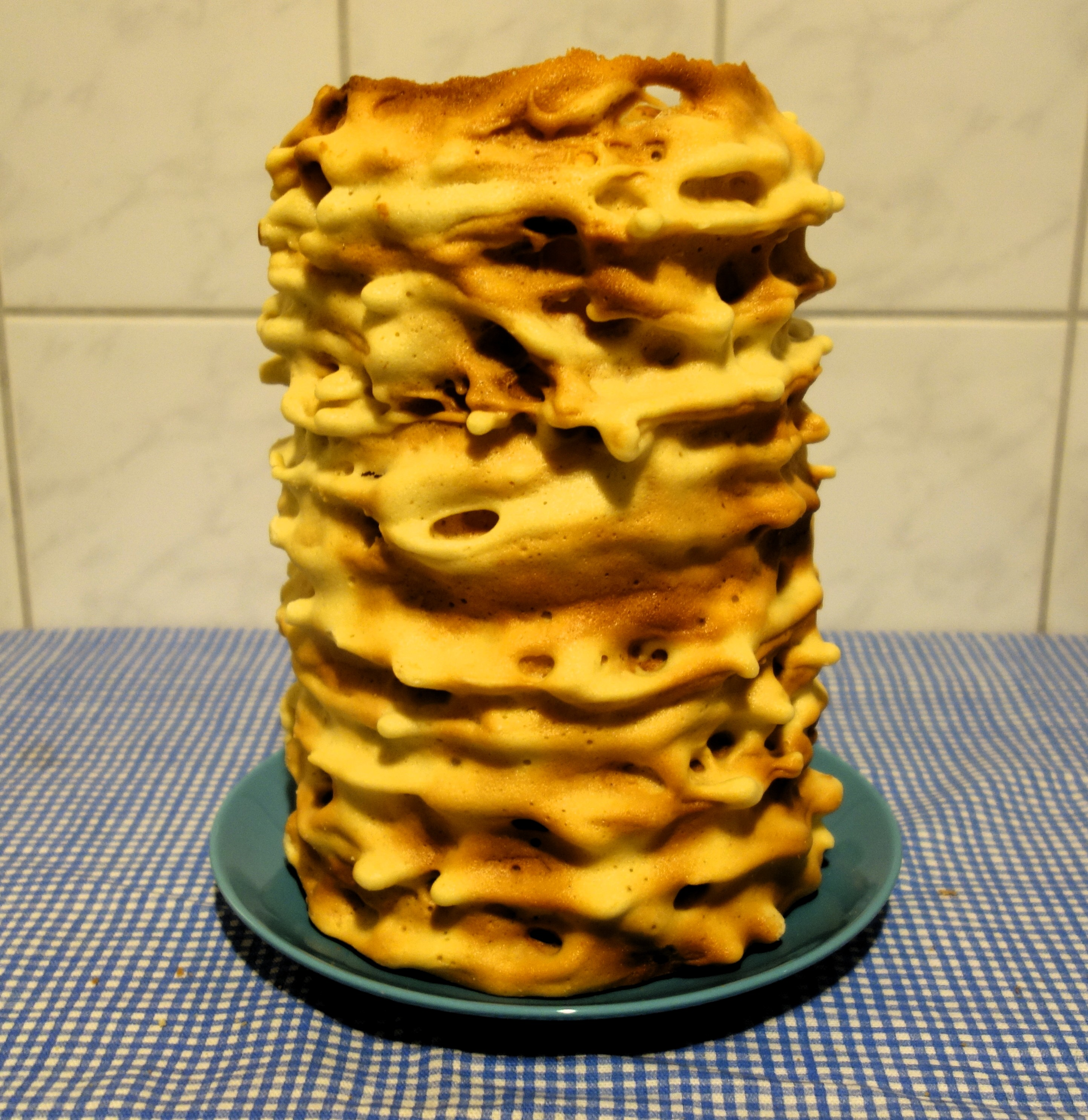 Pruegeltorte, a spit cake from Austria